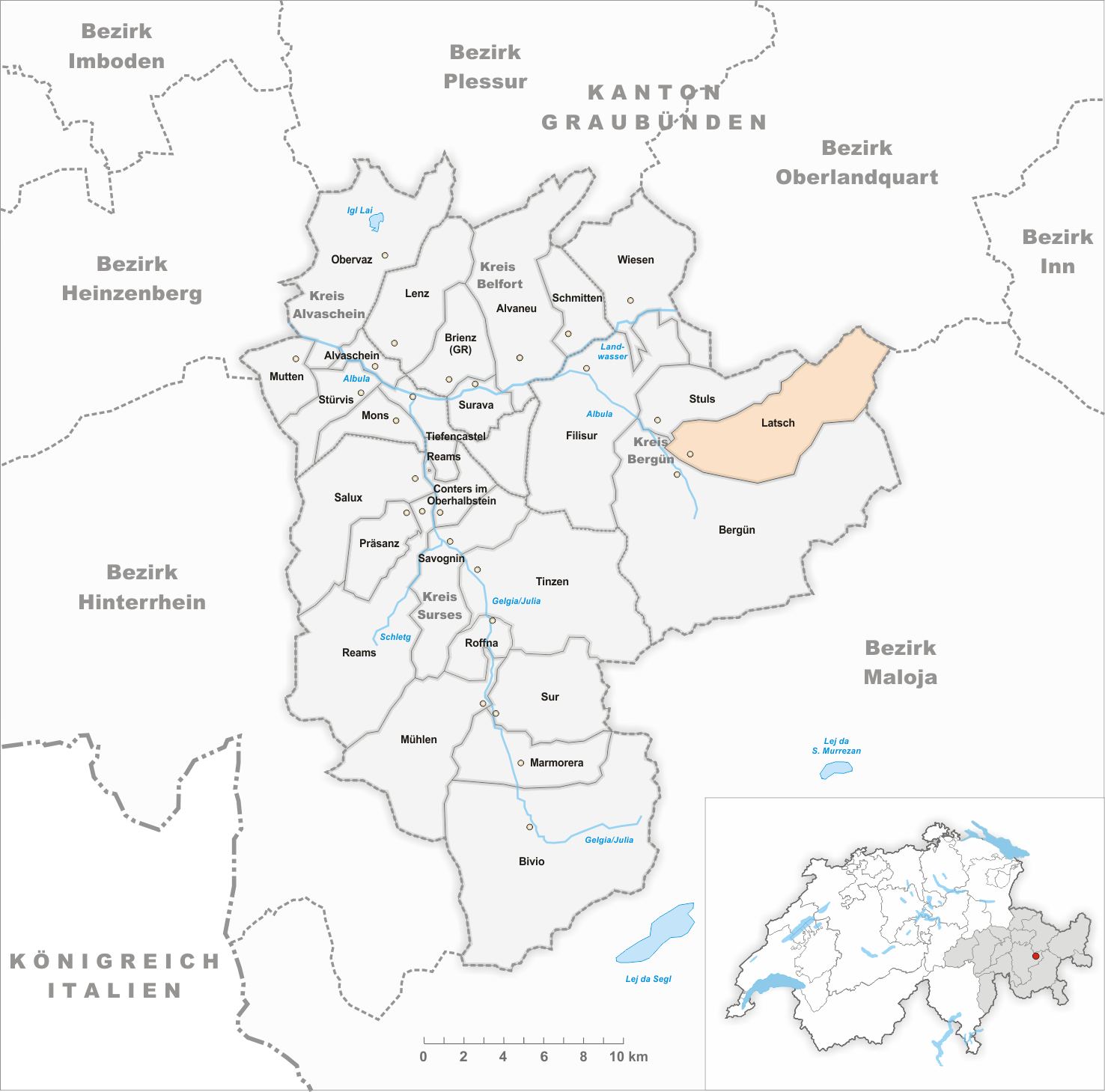 Municipality Latsch Artist: Tschubby